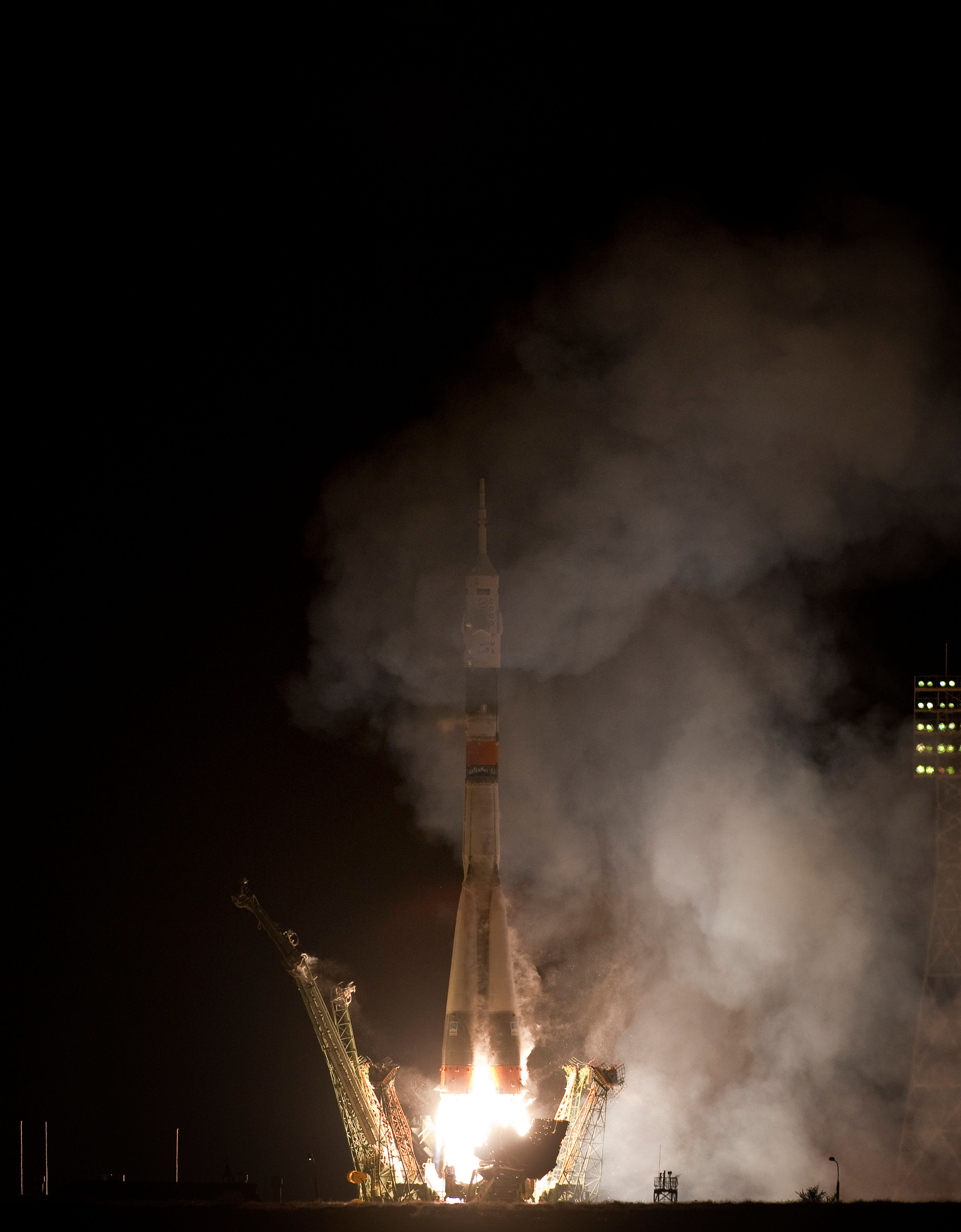 The Soyuz TMA-01M rocket launches from the Baikonur Cosmodrome in Kazakhstan (Oct. 7 in the U.S., Oct. 8 in Kazakhstan) carrying Expedition 25 crew members, Russian cosmonaut Alexander Kaleri, Soyuz commander; NASA astronaut Scott Kelly and Russian cosmonaut Oleg Skripochka, both flight engineers, to the International Space Station. Their Soyuz TMA-01M rocket launched at 5:10 a.m Kazakhstan time.